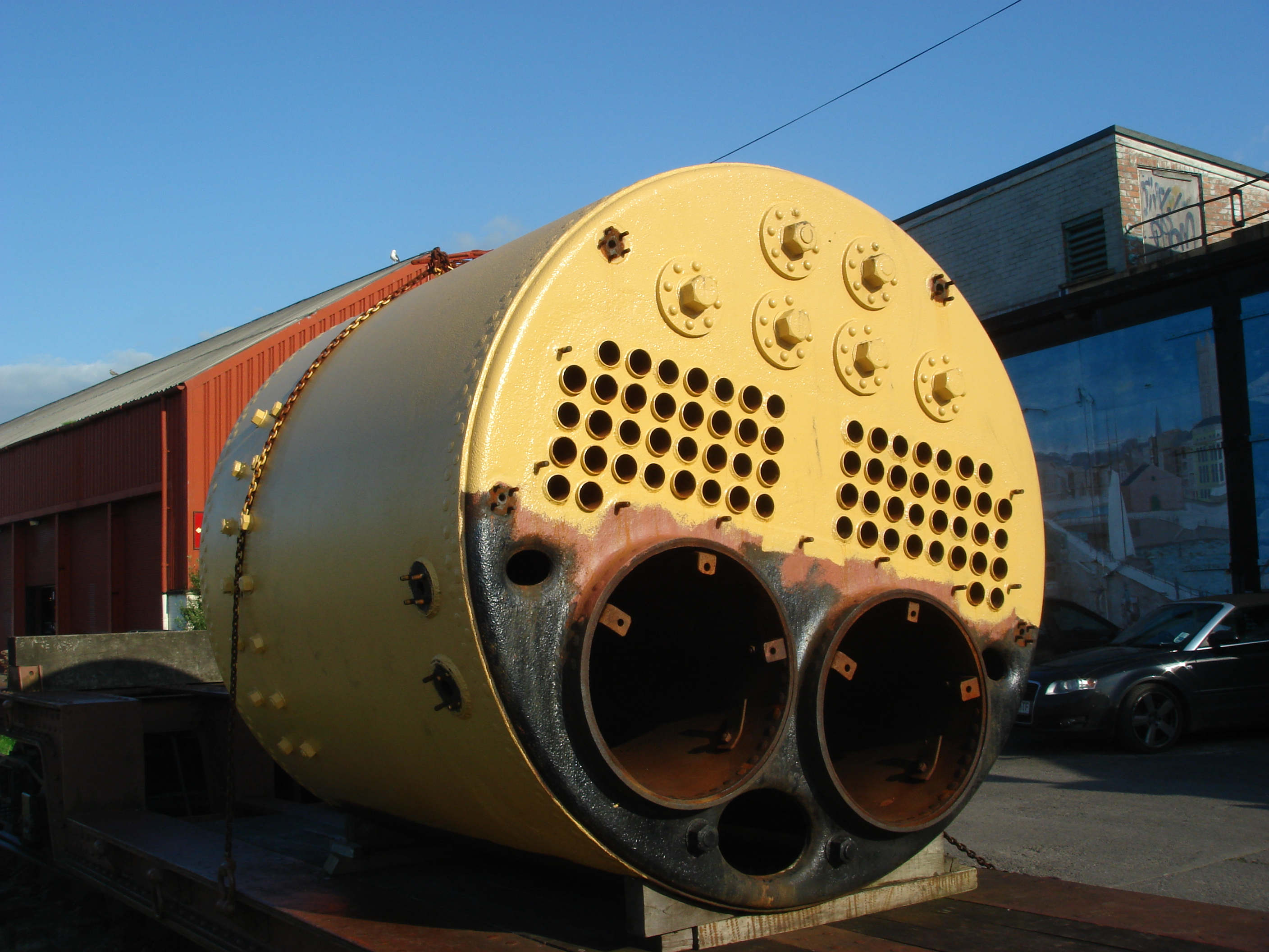 Scotch marine boiler at the Bristol Industrial Museum. This was the boiler from the steam tug Mayflower, removed after the closure of the museum. In use the two furnaces were coal burning, with a smokebox covering the visible tubeplate and leading up into the ship's funnel. Inside the boiler are a pair of combustion chambers, connecting the rear of each furnace to a group of tubes. Approx 9' diameter.